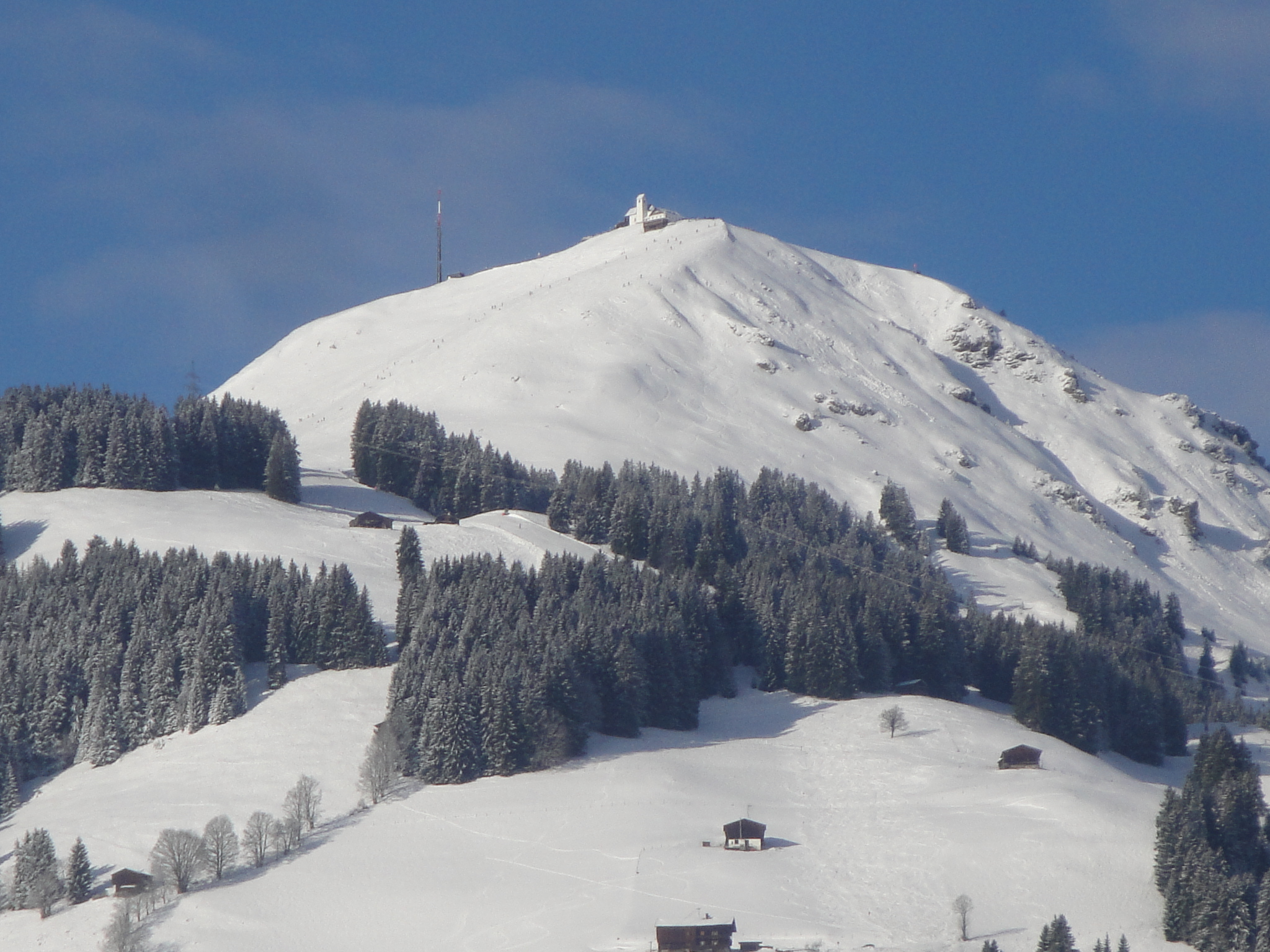 Hohe Salve view from Brixen im Thale